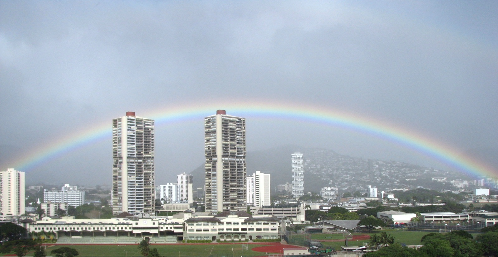 This picture was taken while looking out our apartment living room window in Honolulu, HI, 01/07, while my husband was working in Honolulu. This truly is the "RAINBOW CITY".